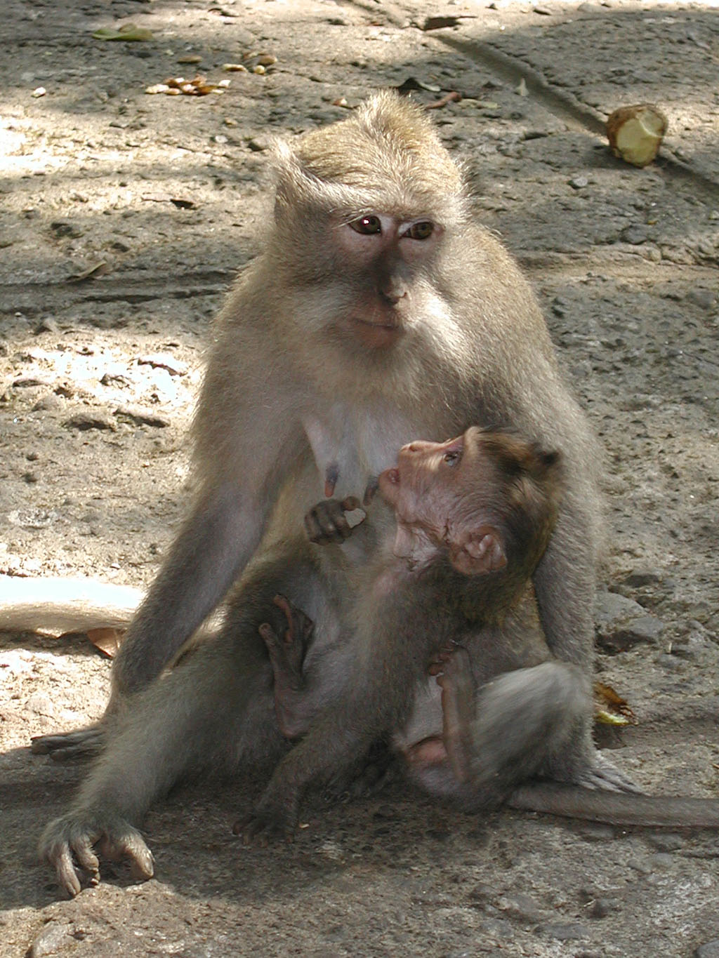 Mother and Child in the Ubud (Bali, Indonesia) Monkey Forest Sanctuary.